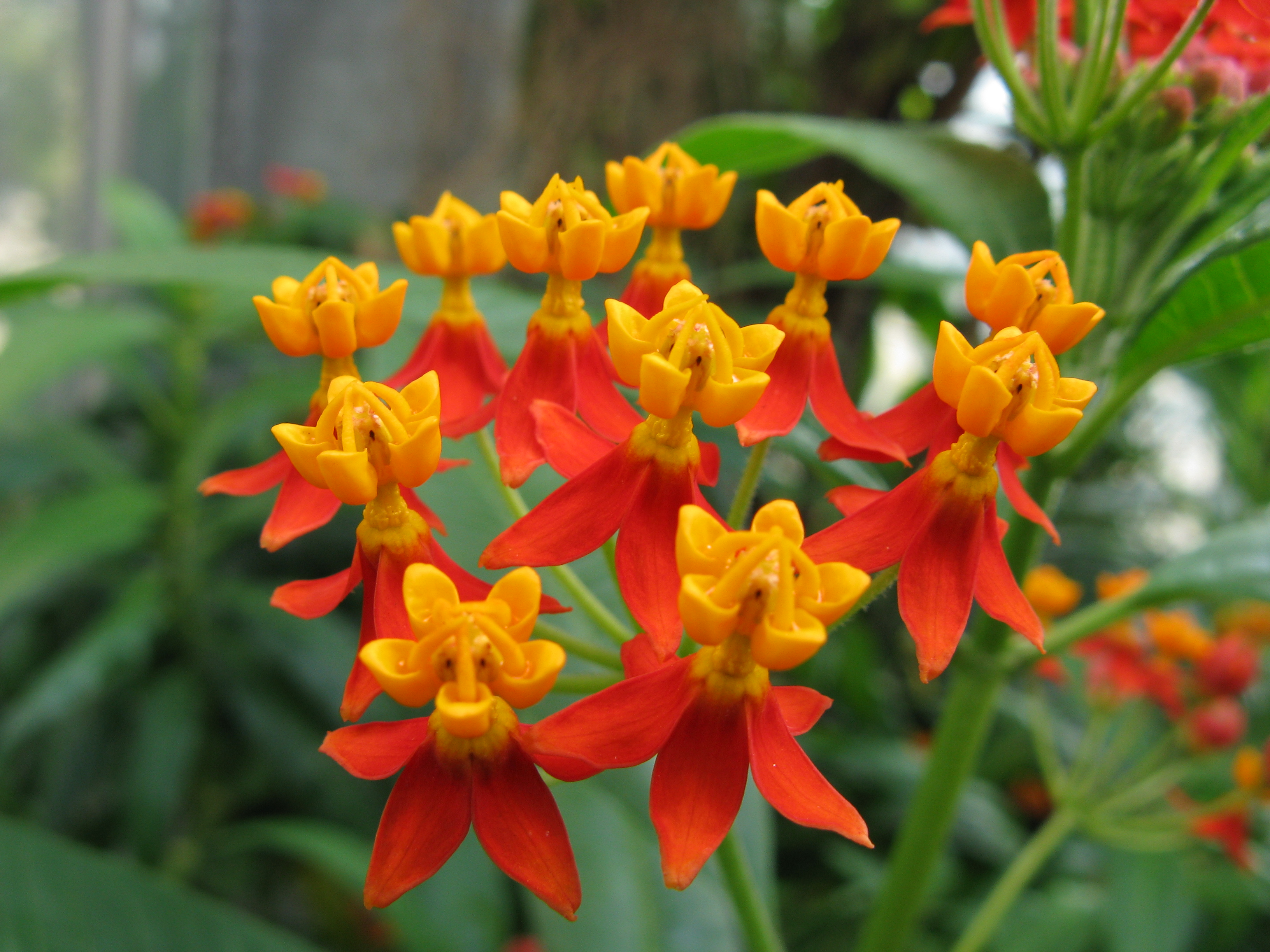 Asclepias curassavica flowers